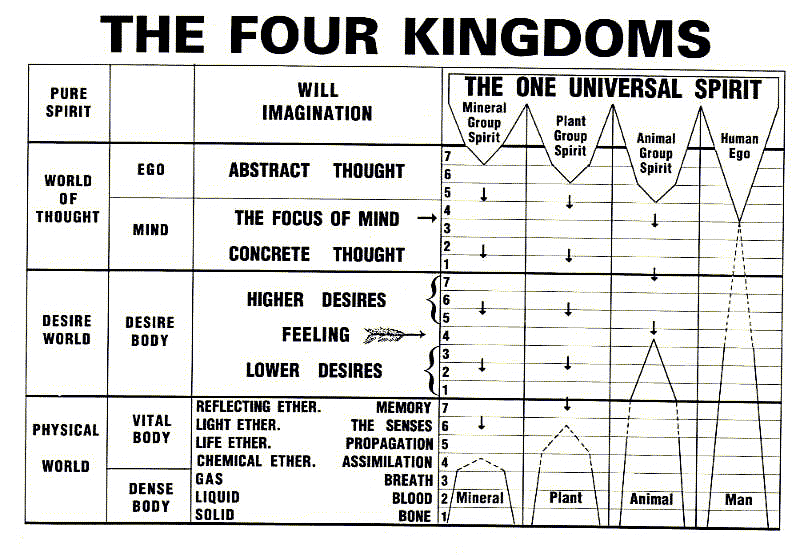 Diagram 3. The Vehicles of the Four Kingdoms. Illustration of Max Heindel's Book The Rosicrucian Cosmo-Conception.